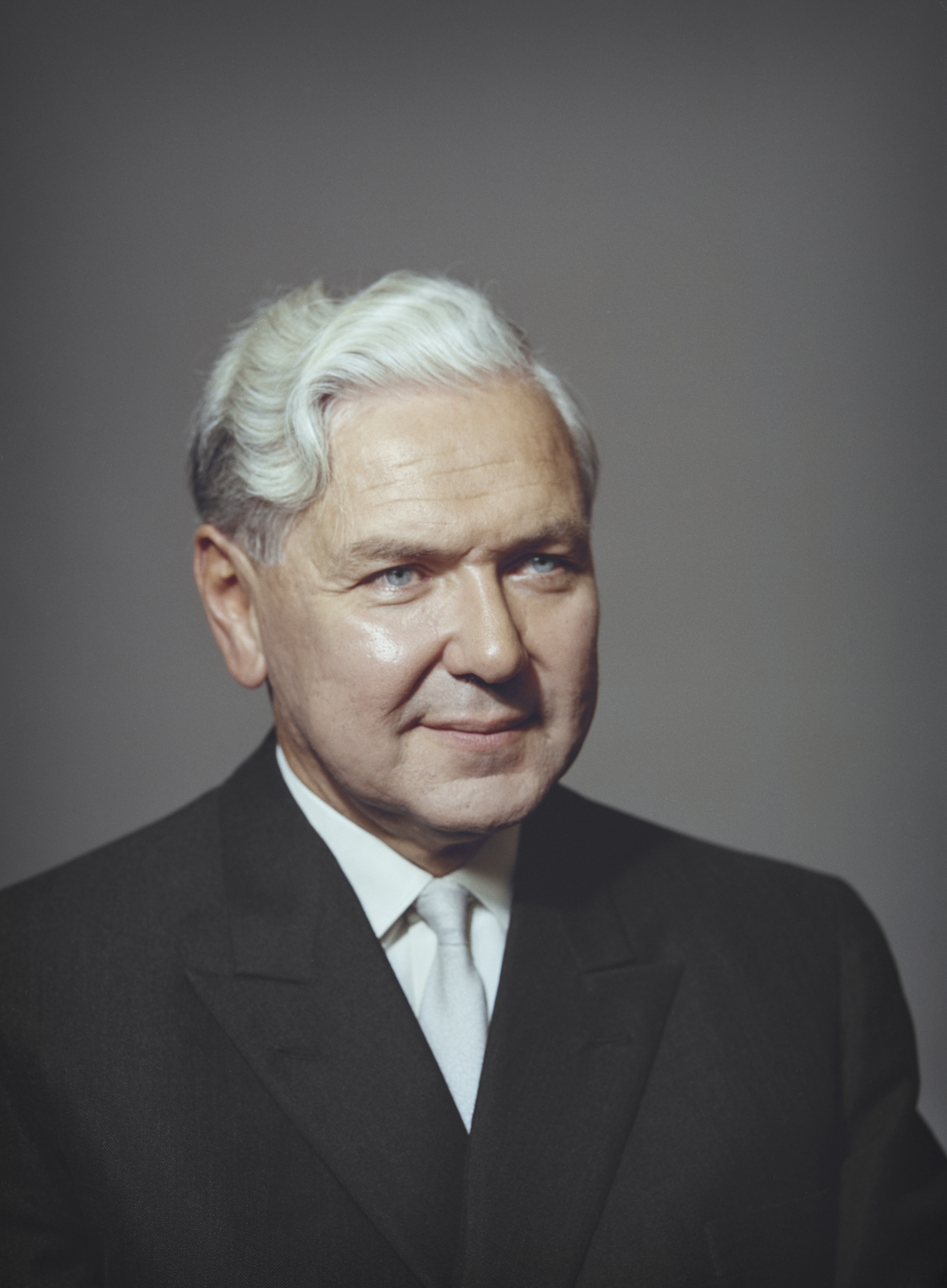 Photograph of the Finnish politician Kaarlo af Heurlin (1915–1985).